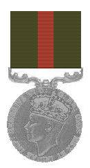 Burma Gallantry Medal